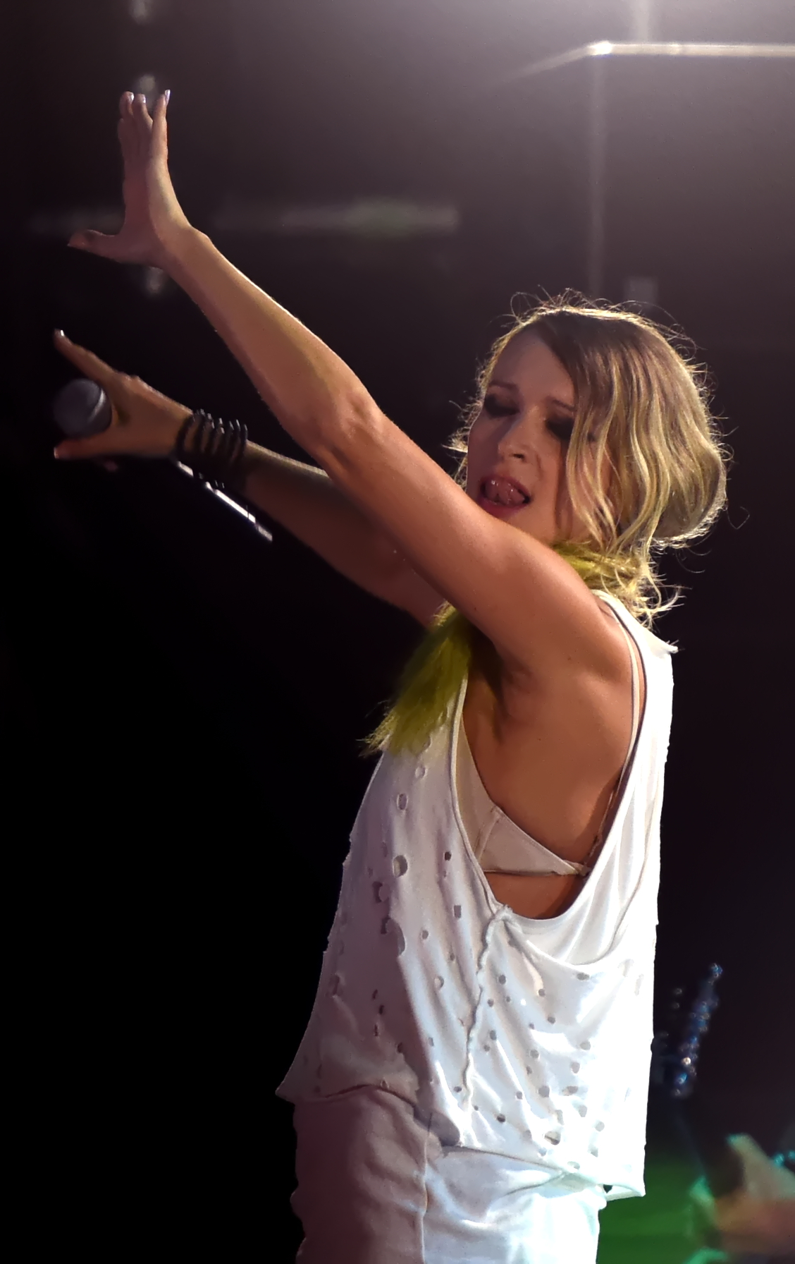 Guano Apes at the Open Flair festival in Eschwege, Germany, 2015.